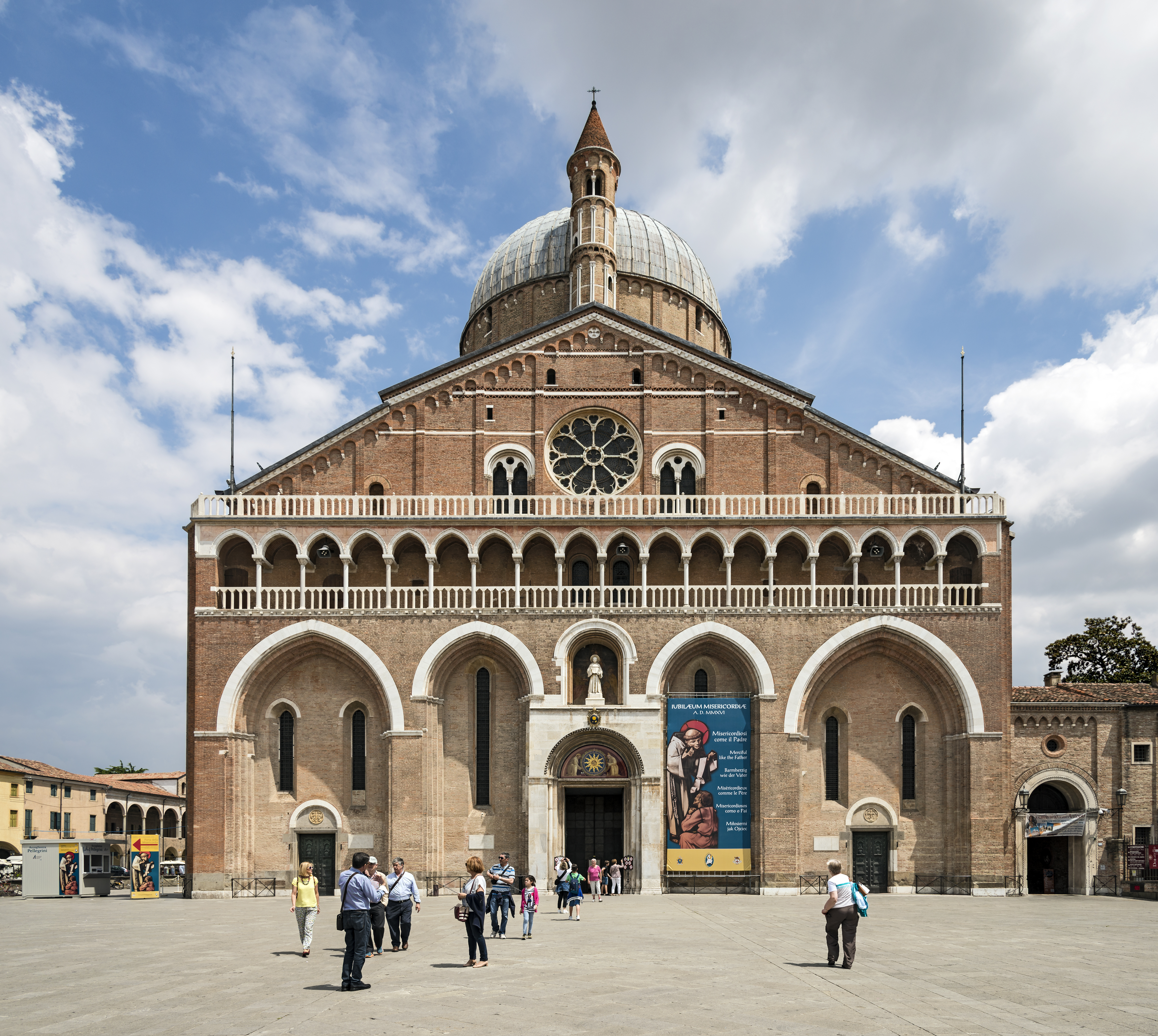 Basilica of Saint Anthony of Padua - Facade and main entrance.